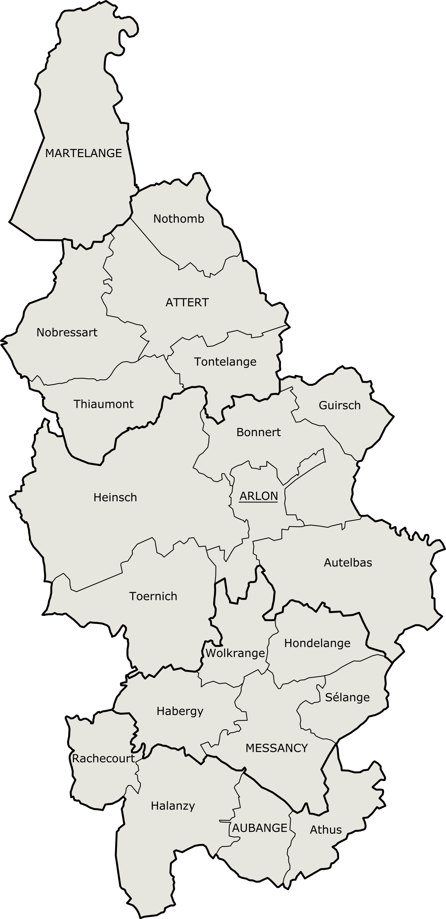 Arlon District. French and English names.